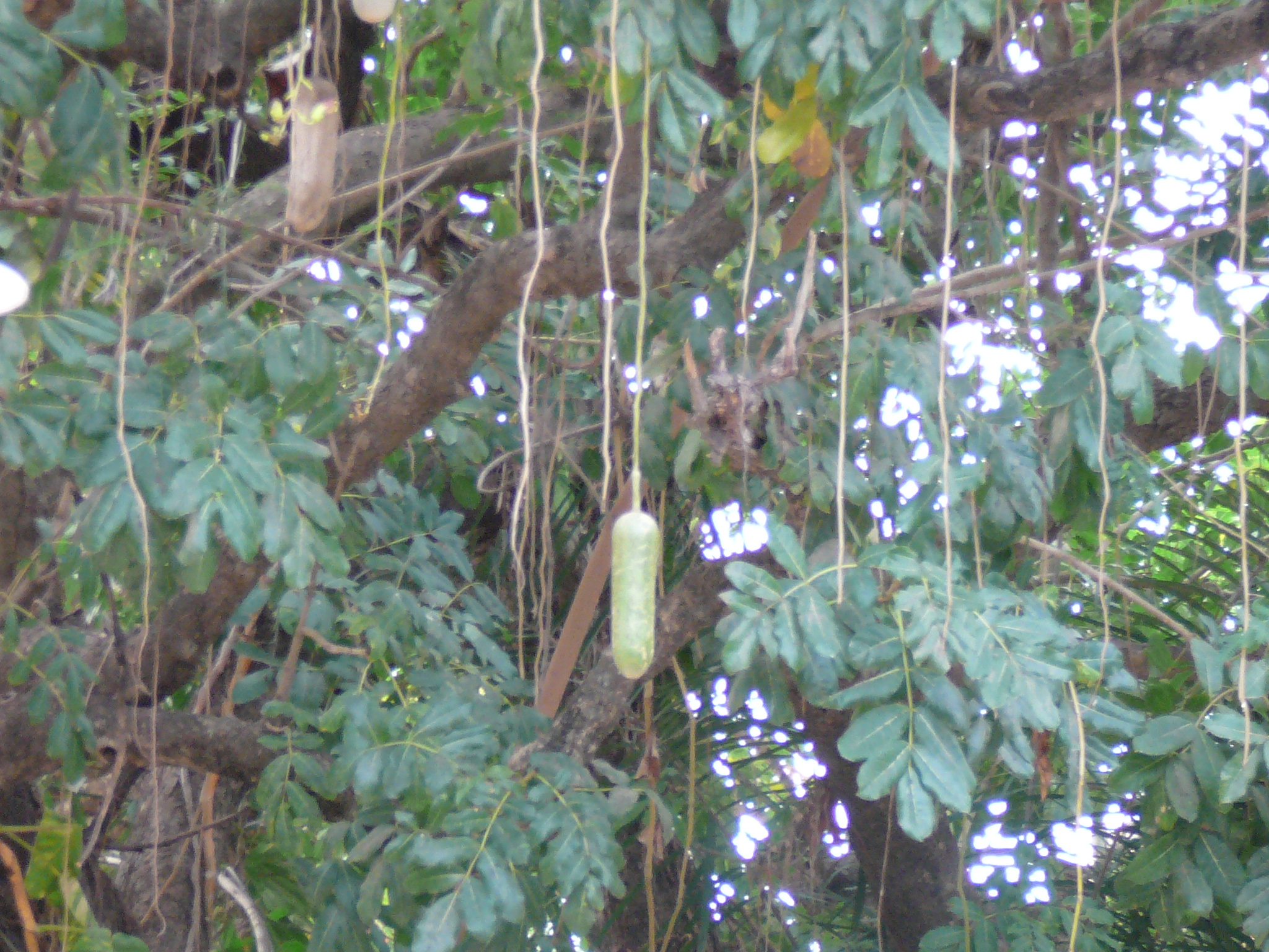 Kigelia